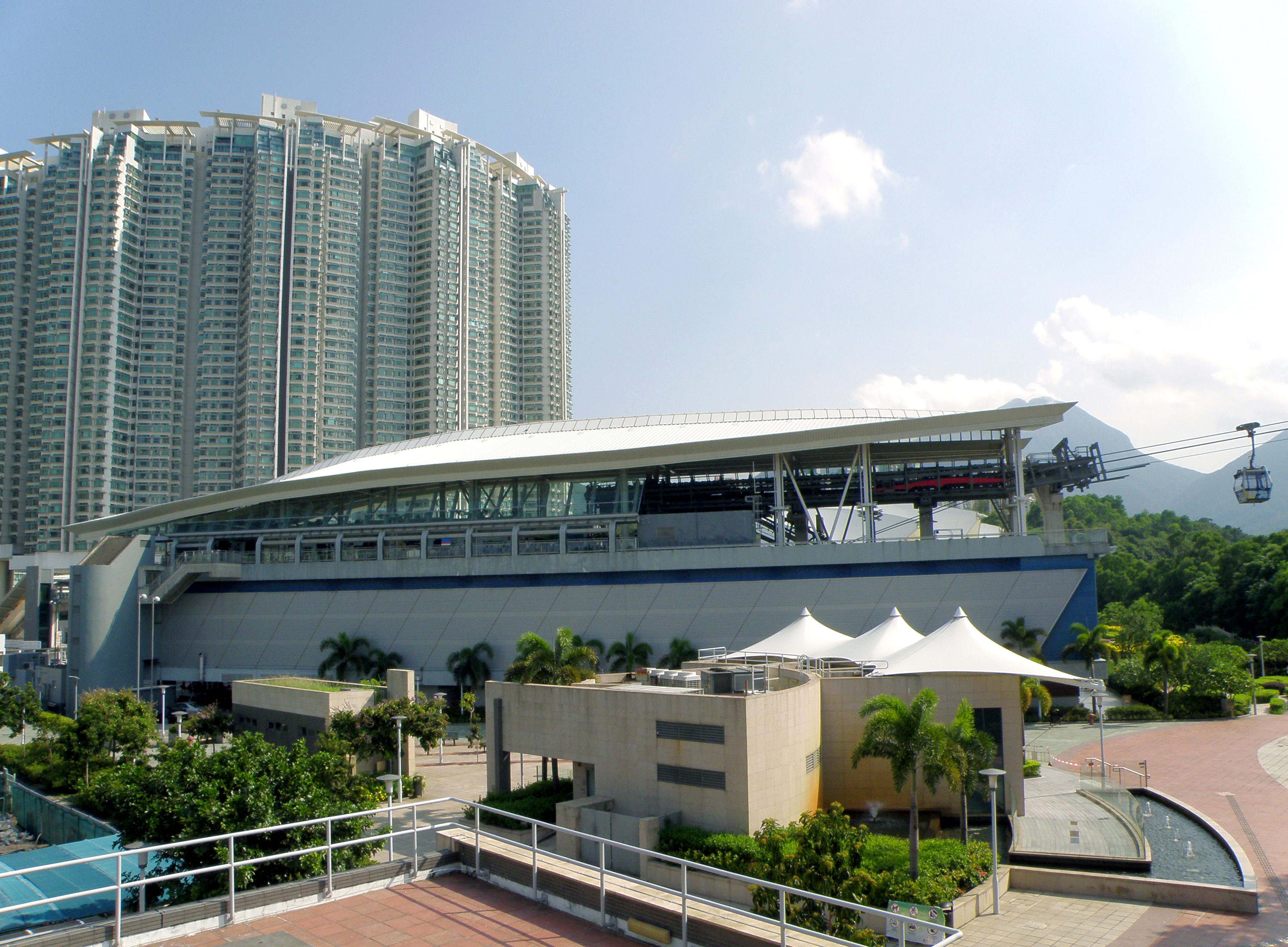 Cable Car Terminal in Tung Chung, Hong Kong.